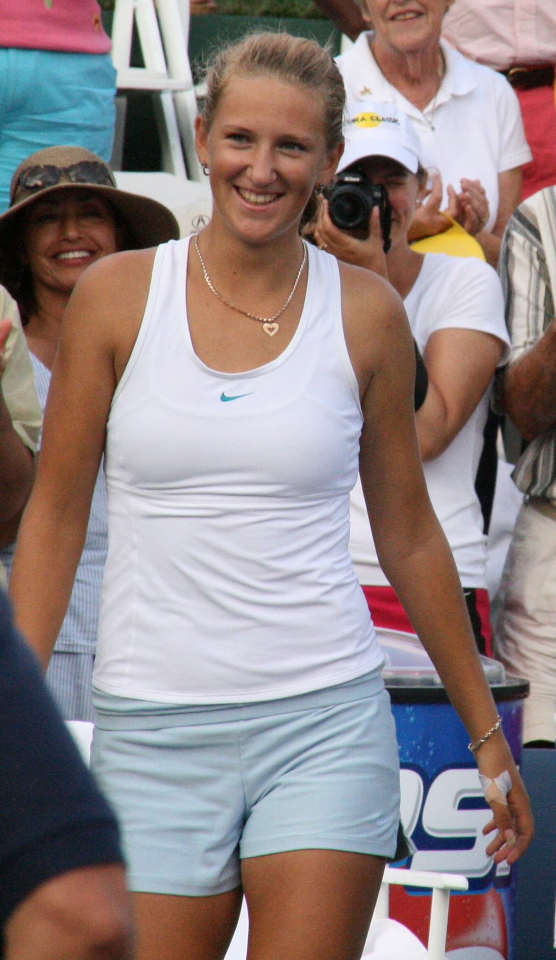 Victoria Azarenka after the doubles final at the 2007 Acura Classic